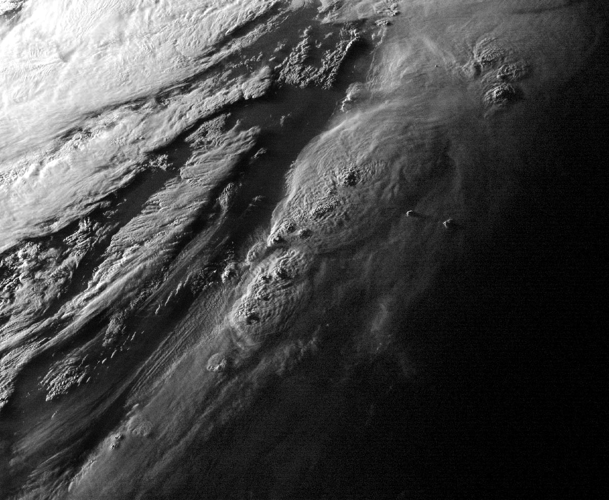 A still image, at sunset, of a deadly tornado outbreak over the Midwest on May 5, 2007.